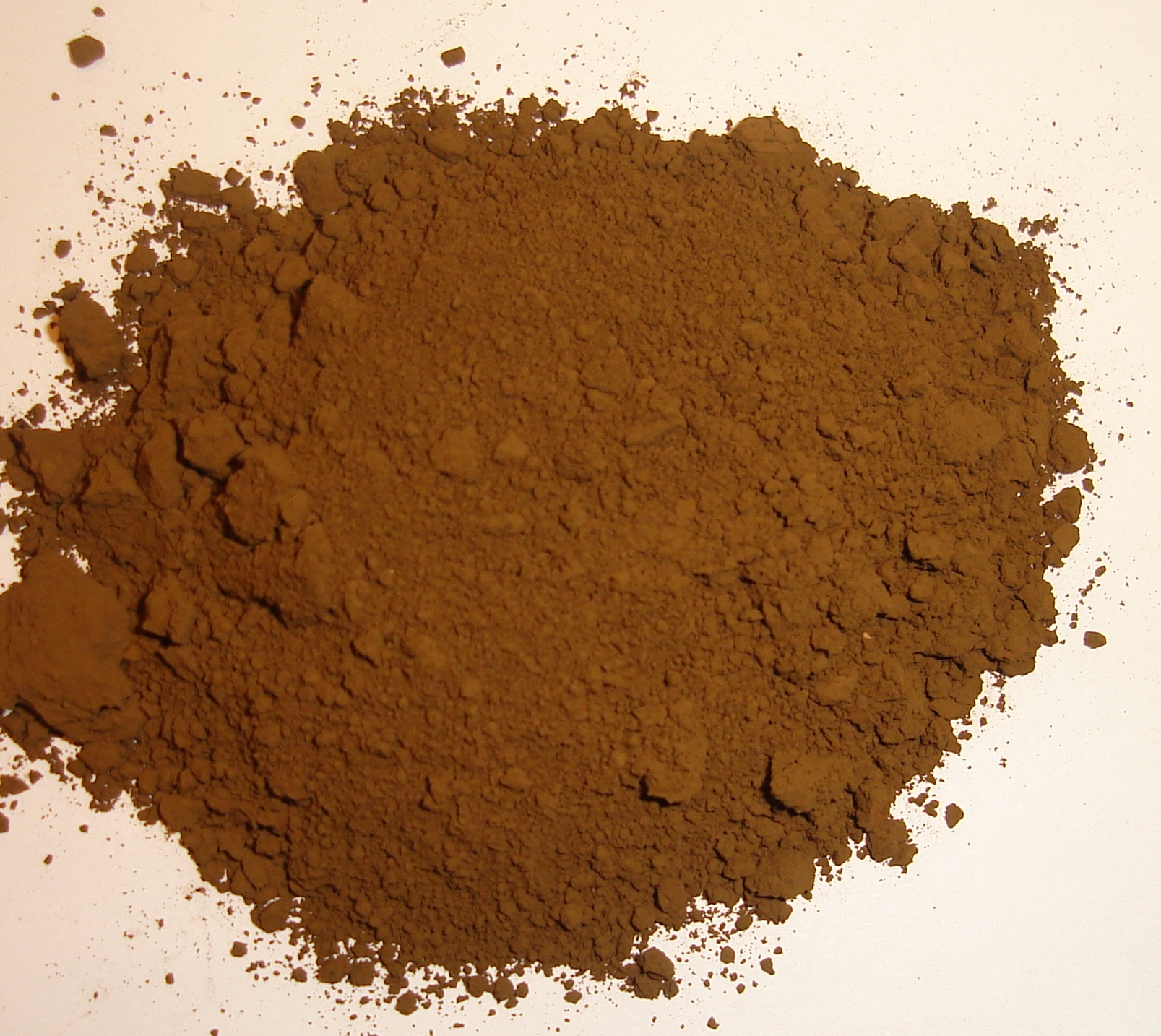 pigment, natural umber cipro